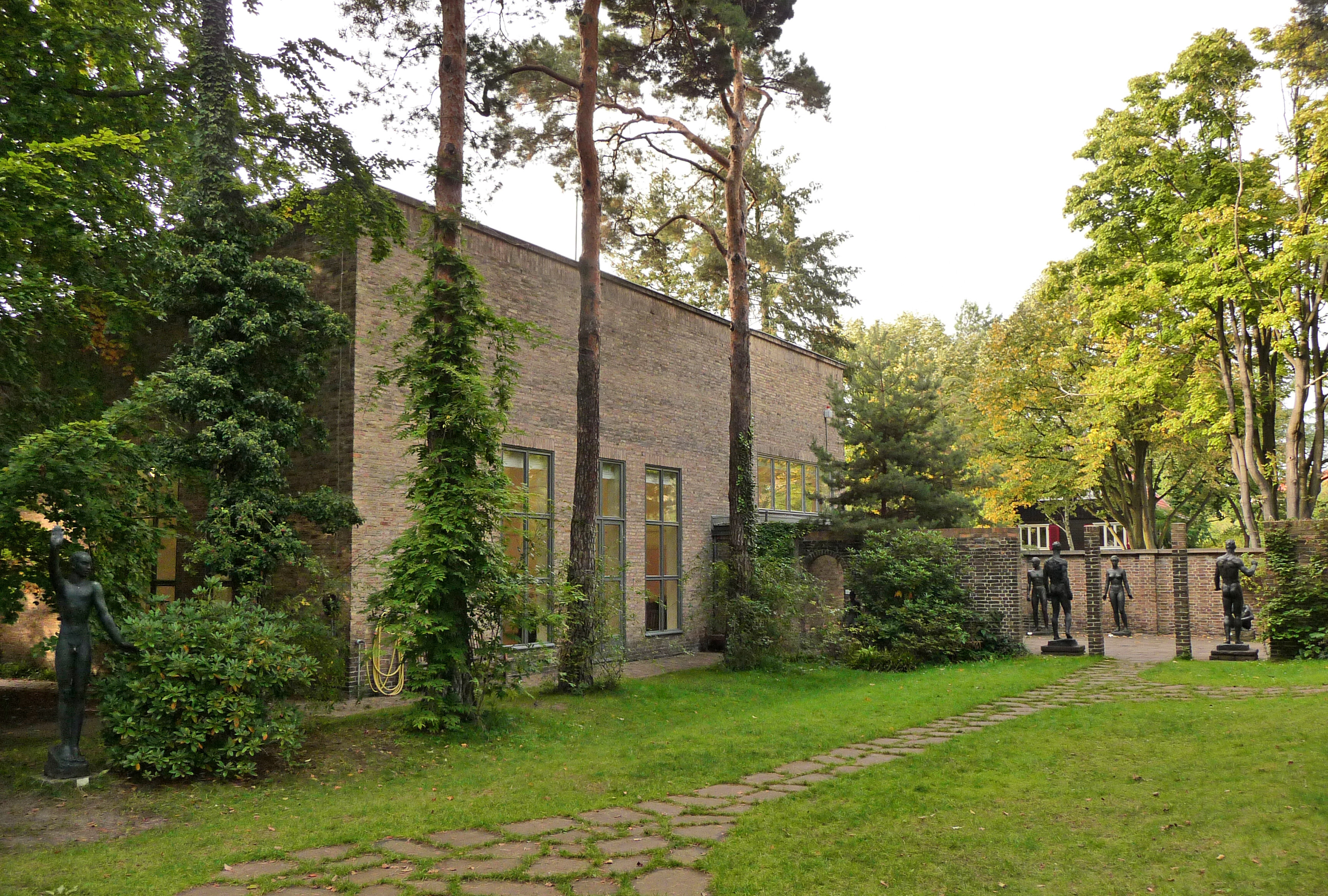 Georg-Kolbe-Museum in Berlin